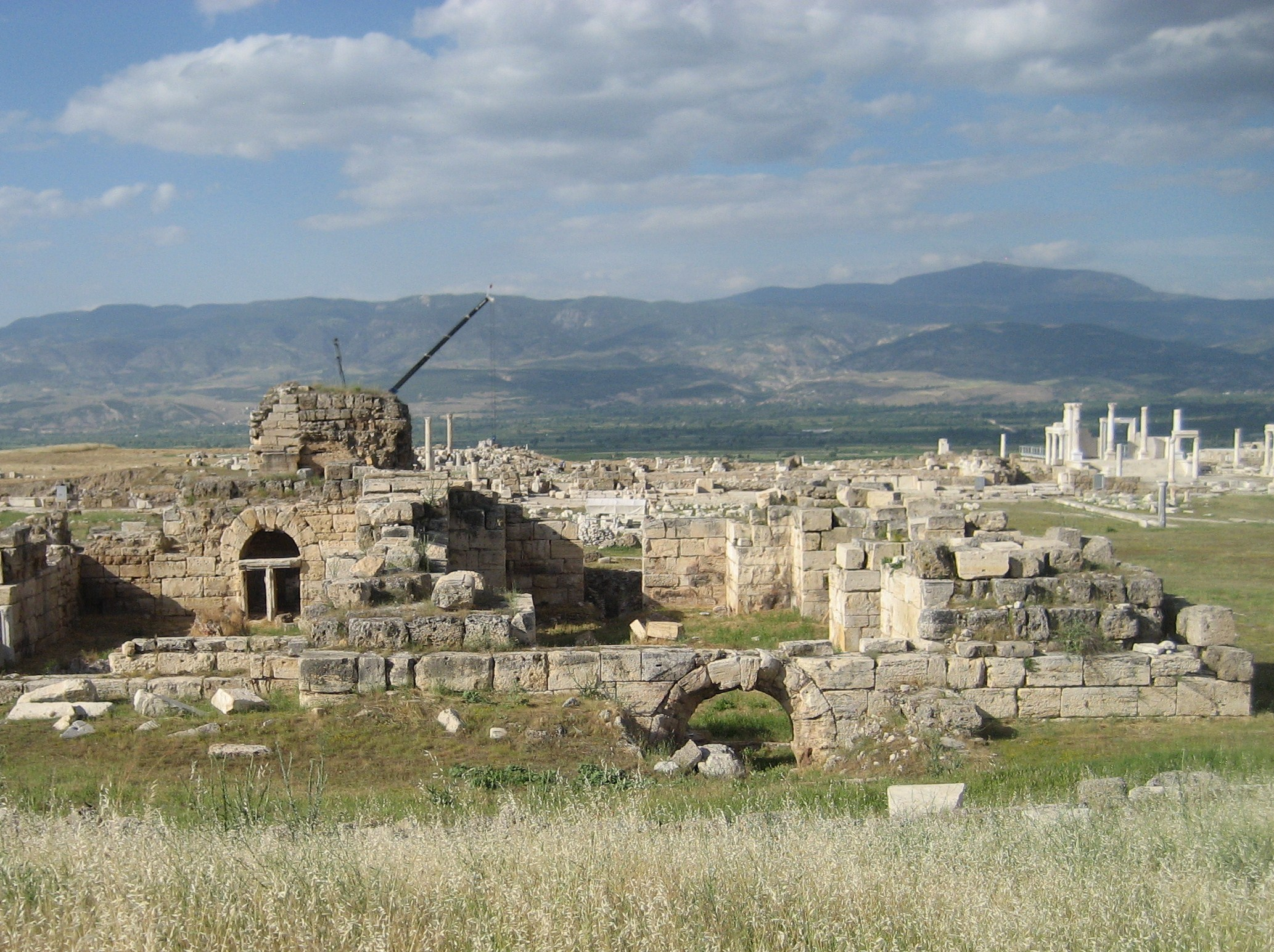 basilica